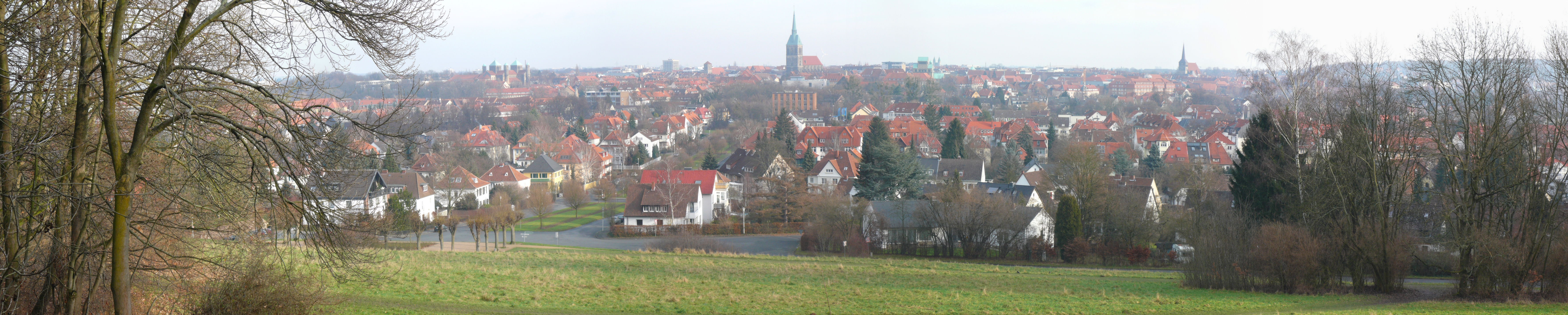 Panorama of Hildesheim from West